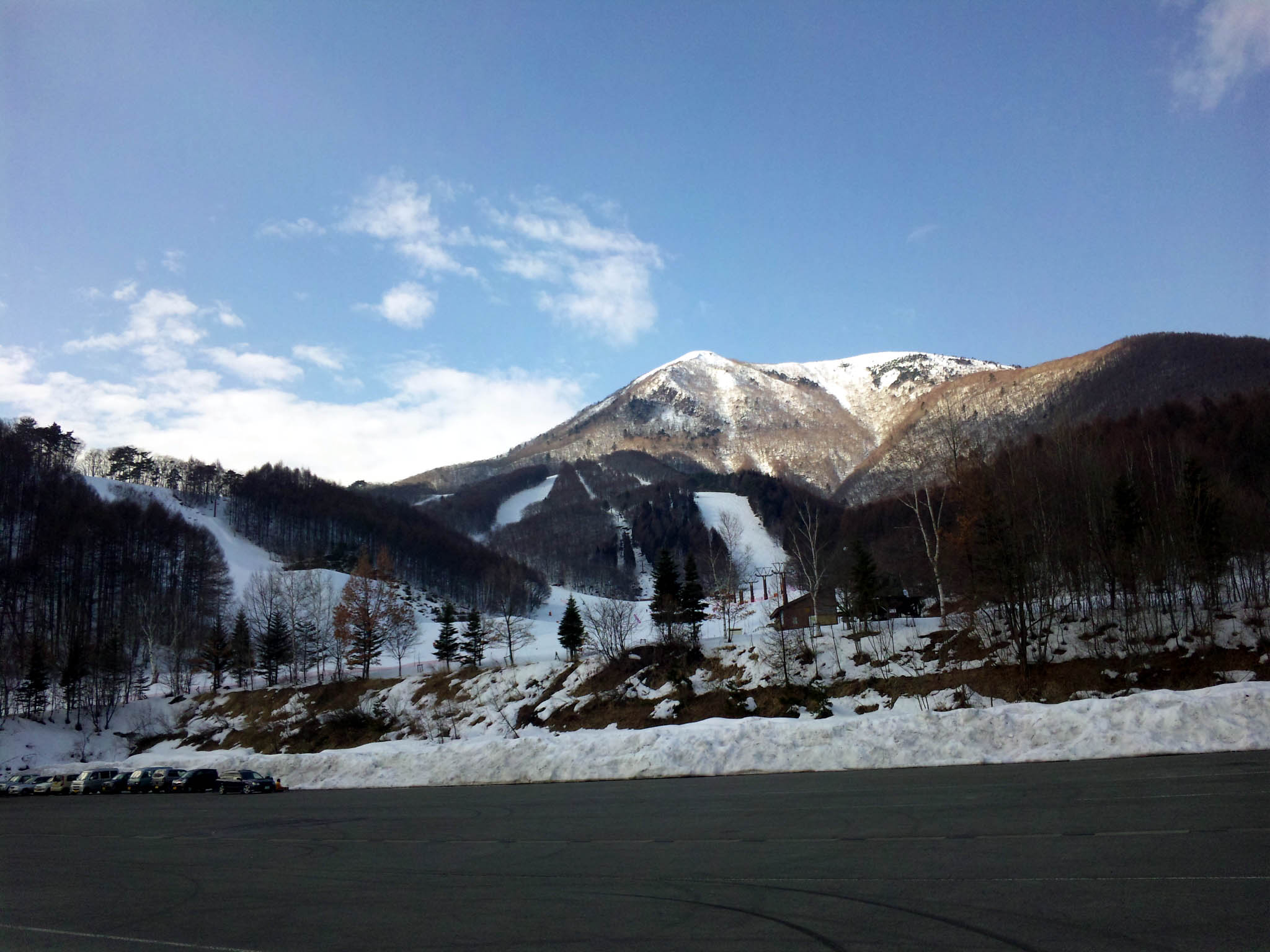 Iizuna Kogen Ski Resort in Nanano City, Nagano Prefecture, Japan